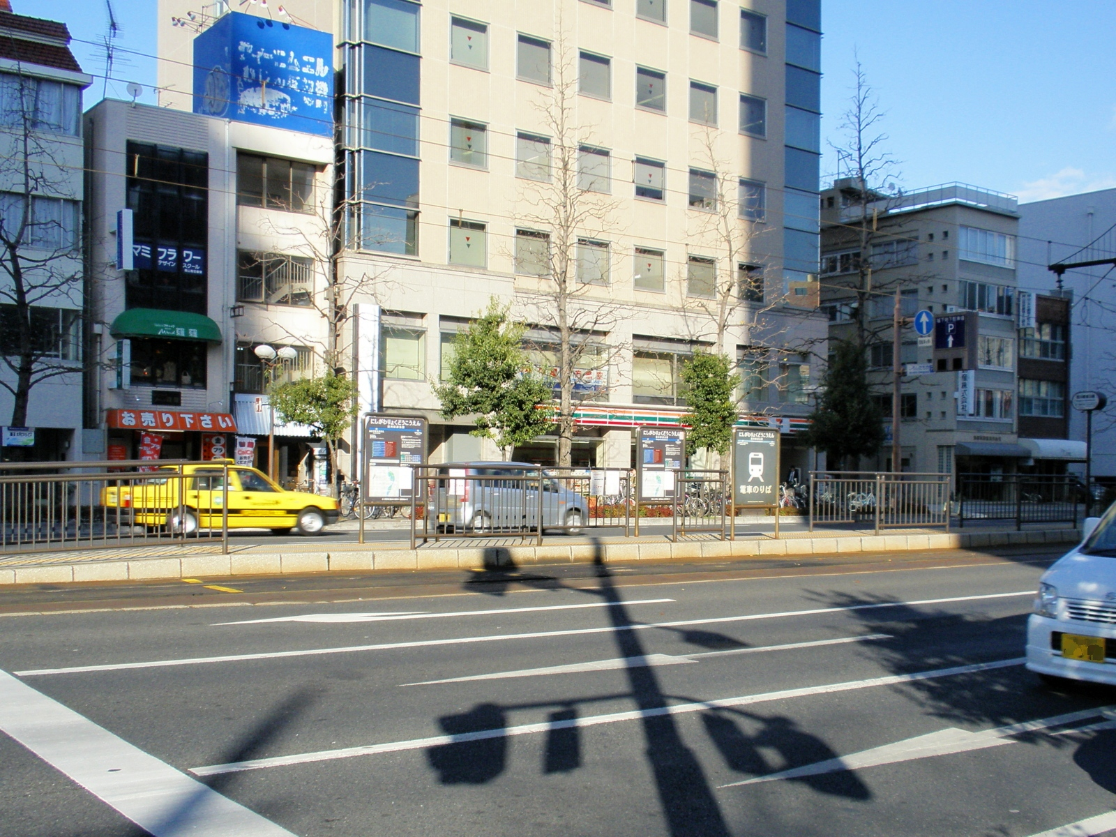 Okayama Electric Tramway Nishigawa-ryokudokouen Station (Nishigawa Canal Walk Station)